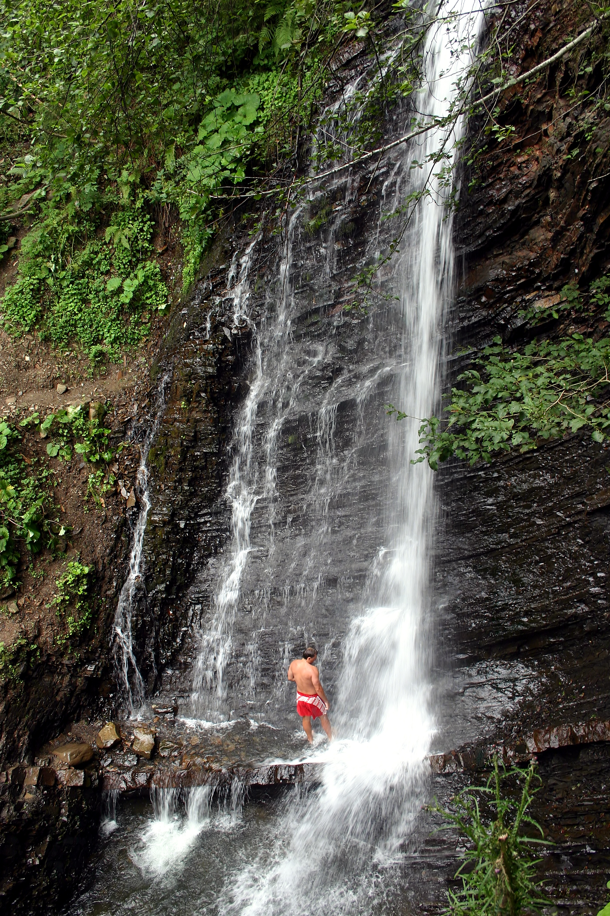 Waterfall Zhenets, Carpathian mountains of Ukraine, Ivano-Frankvsk Oblast, Nadvirna Raion